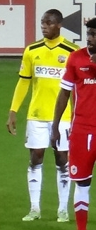 Moses Odubajo, Brentford FC footballer, Cardiff City Stadium, December 2014.;Other information: Cropped from original.